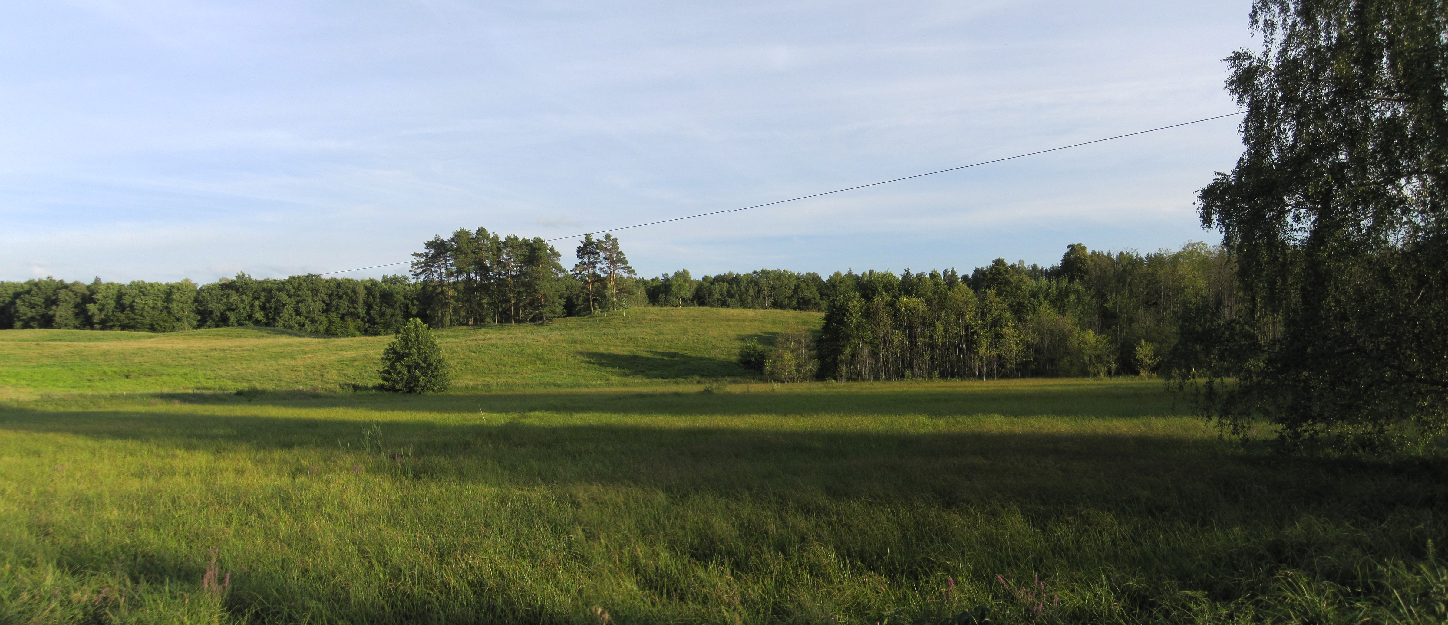 Panorama near Monastery in Wojnowo